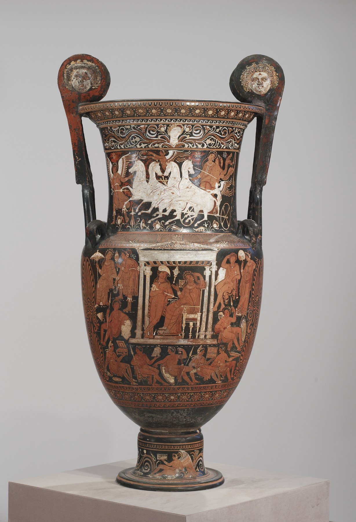 When an ancient artist's name is not known, he is often designated by the location of his most prominent work. Thus, the artist of this vase is known as the Baltimore Painter, taking his name from this piece. More than 1,500 vases are attributed to this artist, who worked in Apulia, South Italy. The flowery vines, elaborately patterned drapery, extensive use of foreshortening (the technique of drawing objects from the front and creating an illusion of depth), and added color are typical of Apulian works. This vessel served as a funerary marker. On the front, the messenger-god Hermes, who also guided the dead to the underworld, waits as a woman (representing the deceased) prepares for her journey there. The figures on either side may represent other dead souls. This type of "krater," a vessel for mixing water and wine, is known as a volute "krater" because of the spiral, scroll-like (volute) shape of the handles. Though generally used for dispensing wine at parties, the funerary scenes depicted on the sides of the vessel indicate that it was not created for drinking parties, but for use as a burial marker. The scenes on the vase represent the underworld. The world of the dead was referred to as "the house of Hades," the domain of that god. On the backside is a warrior clothed in Campanian (southern Italy) clothing, seated in a "naiskos," or shrine.